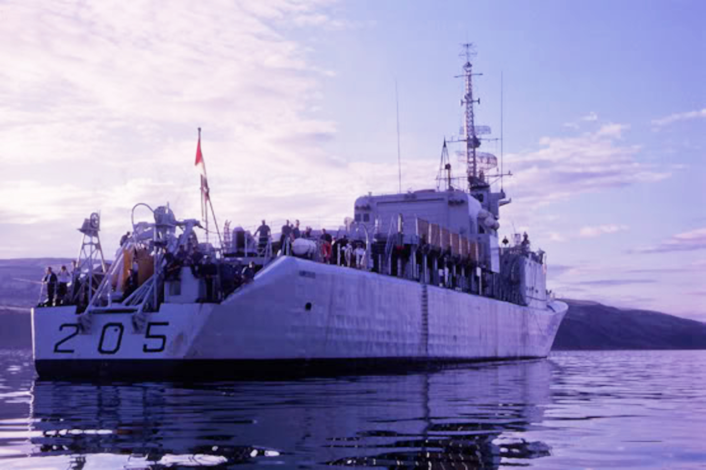 HMCS St. Laurent anchored in the Irish Sea, 1966, showing our VDS (stern-mounted SQS-504 Variable Depth Sonar), flight deck and hanger, SPS-10 and SPS-12 radar antennae, etc. This was during a European trip which took her to Derry, Southampton, Antwerp, Gotenberg and Helsinki. We carried no helicopter because the hanger was too small for the (new) Sea Kings (it was designed for a Seahorse), so 3 among the crew took motorcycles, or in the photographer's case, a mo-ped, on the trip - I was a Combat Information Operator (Radar Plotter) who had just visited the HMS Rhyl for the day and was returning on the "Sally's" cutter. The too-small hanger was ripped off and replaced with a new, larger one in St. John, NB later that year.